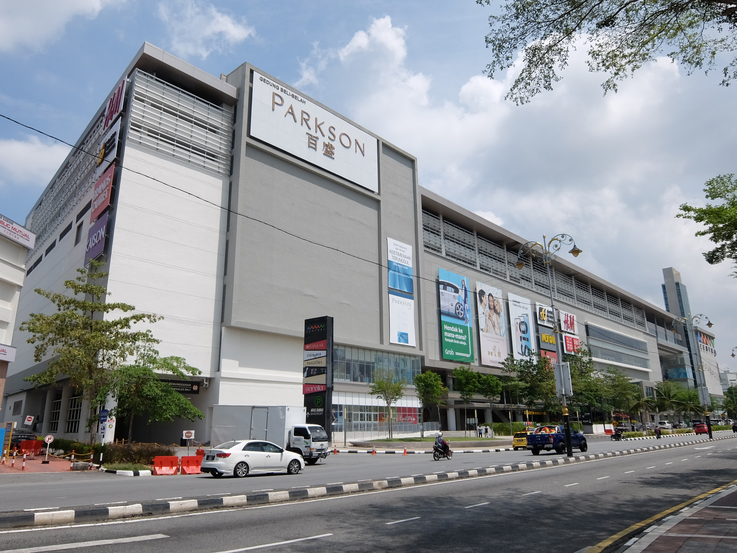 Aman Central, Alor Setar, Kota Setar, Kedah, Malaysia